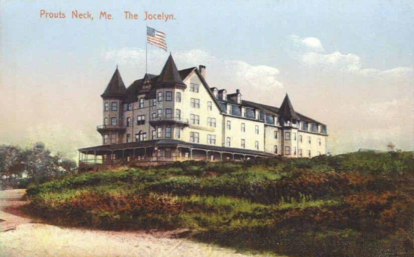 The Jocelyn Hotel, Prouts Neck, Scarborough, Maine. Built in 1890, then augmented in the Queen Anne style by architect John Calvin Stevens, it burned on July 27, 1909 and was not rebuilt.